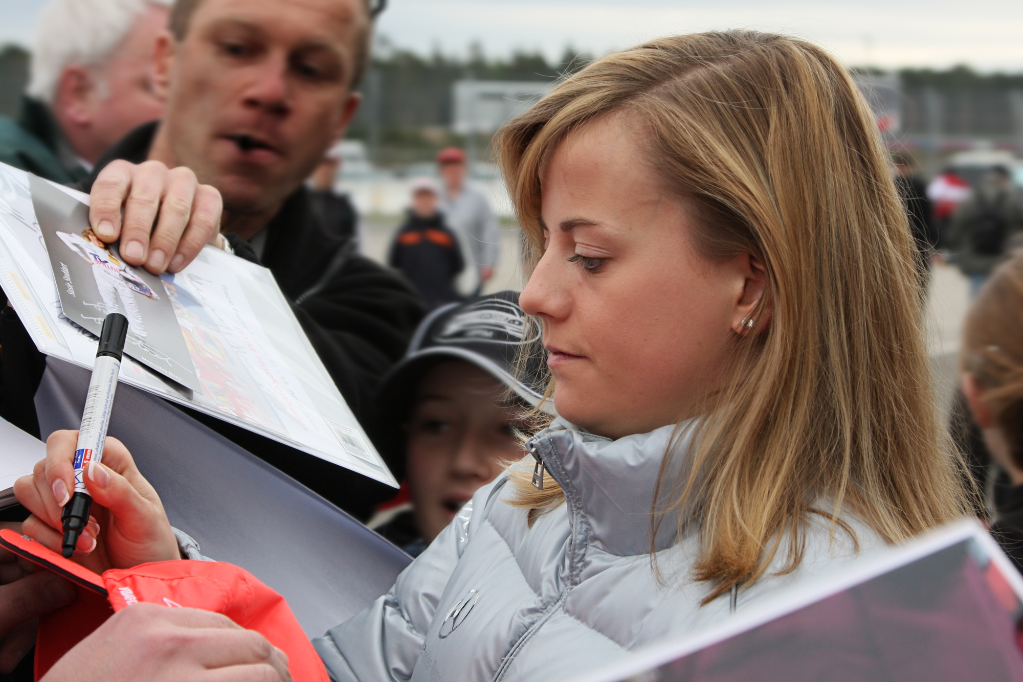 Susie Stoddart April 2008 at the Hockenheimring.